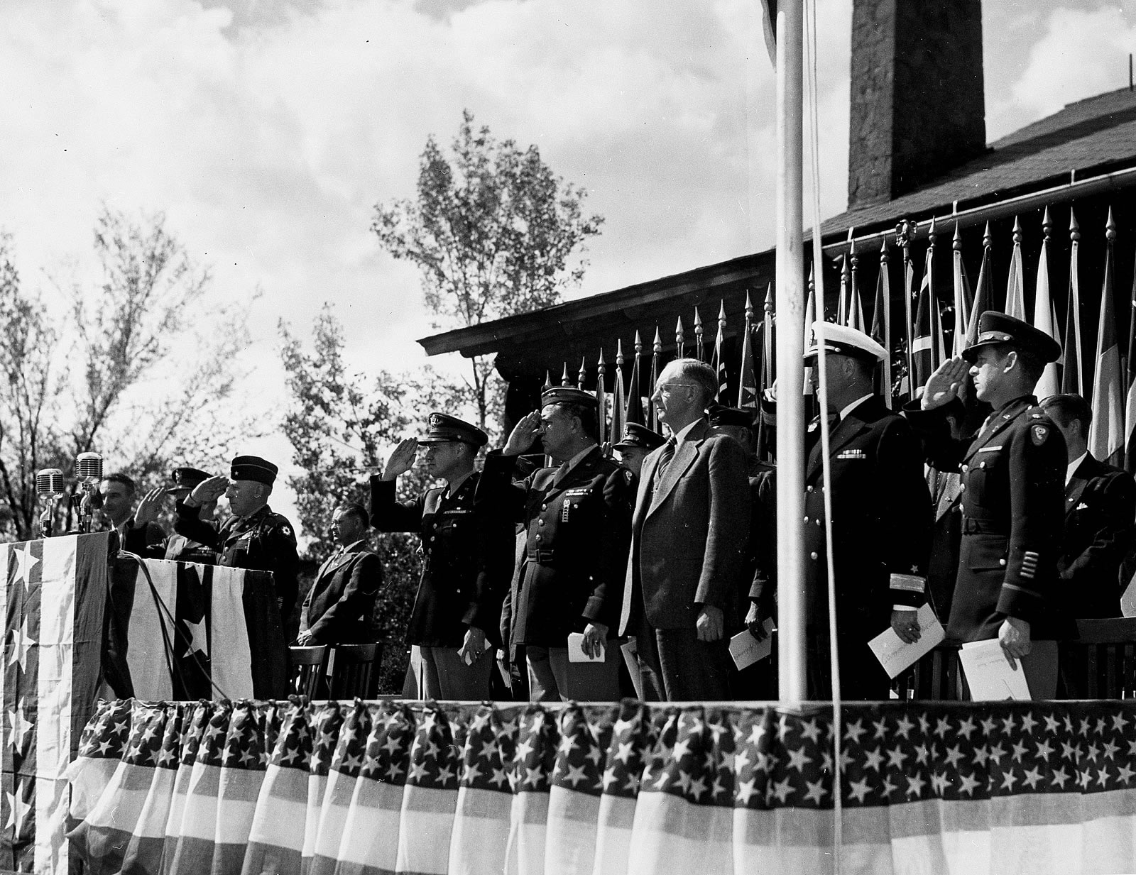 Presentation of Army-Navy E Award at Fuller Lodge, Los Alamos, NM. J Robert Oppenheimer is at left. Colonel Nichols, commander of the MED is in the center, wearing glasses. To the right is Major General Leslie Groves, commander of the Manhattan Project; Robert Gordon Sproul, the President of the University of California; and Commodore W. S. Parsons